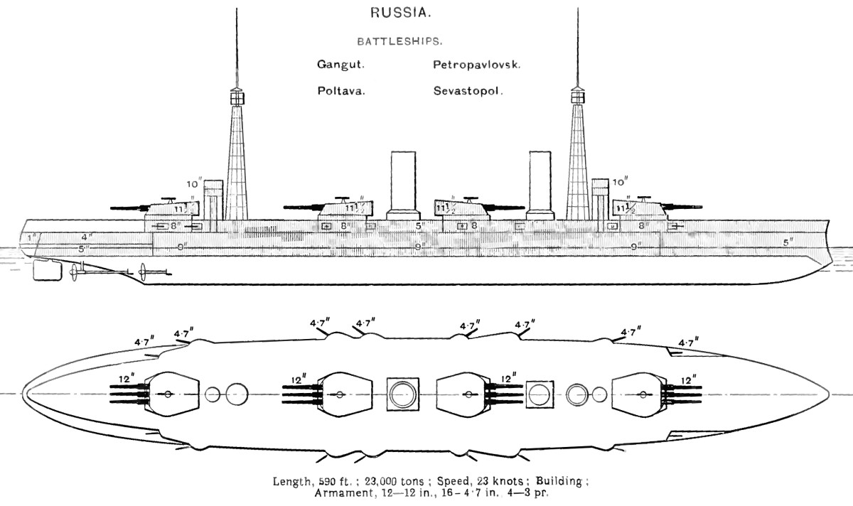 Right elevation and deck plan diagrams of Russian Gangut class battleship. Numbers on top diagram show armour thickness (shaded areas) in inches. Numbers on bottom diagram show size of guns in inches.